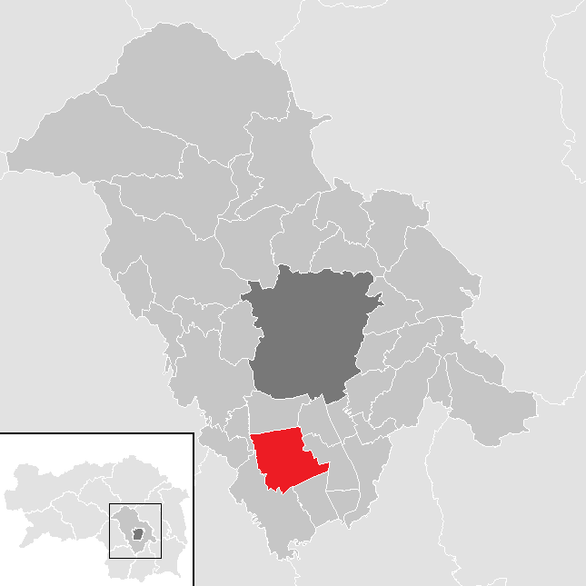 Premstätten within the district Graz-Umgebung